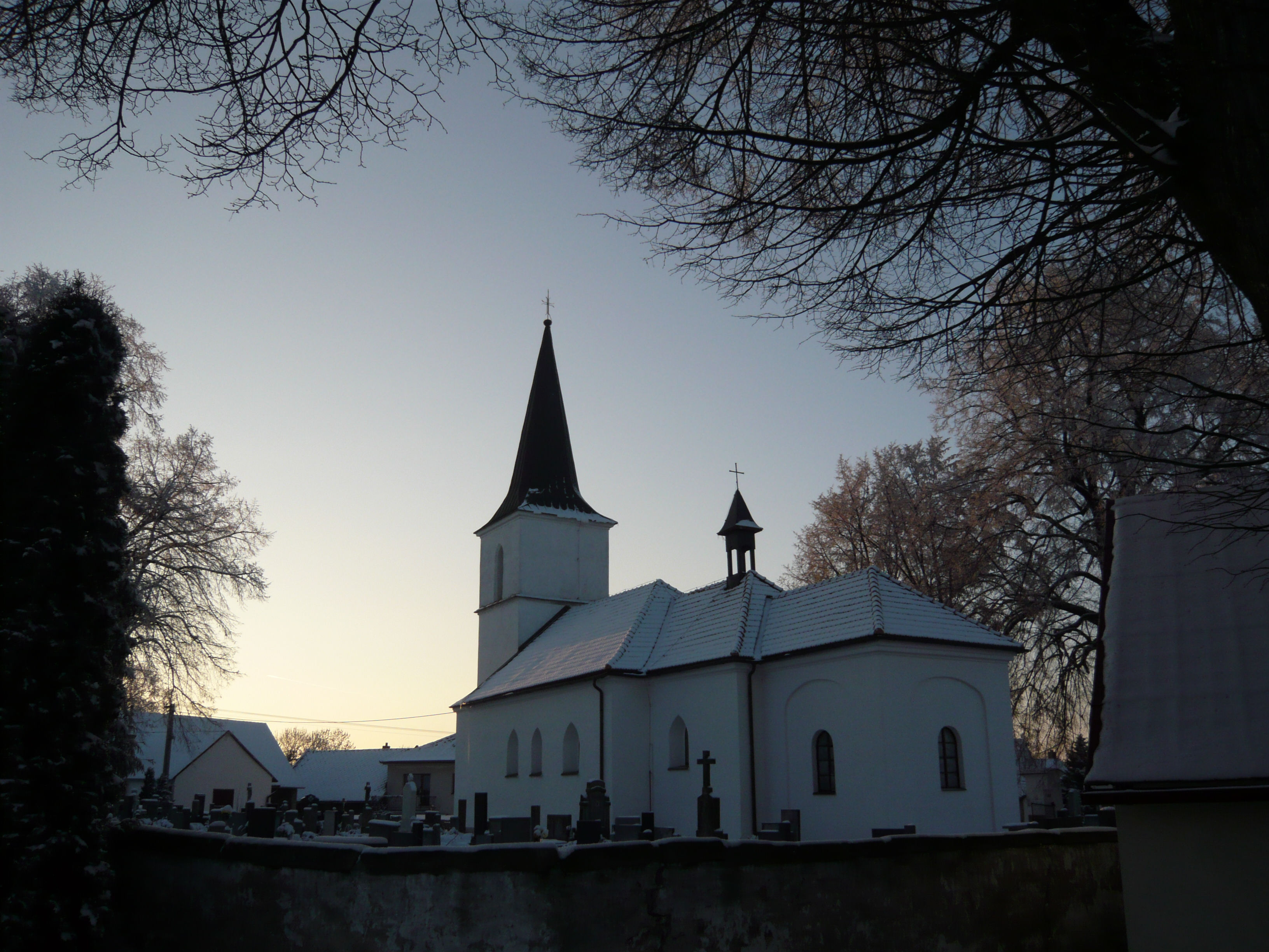 Tis, Czech Republic